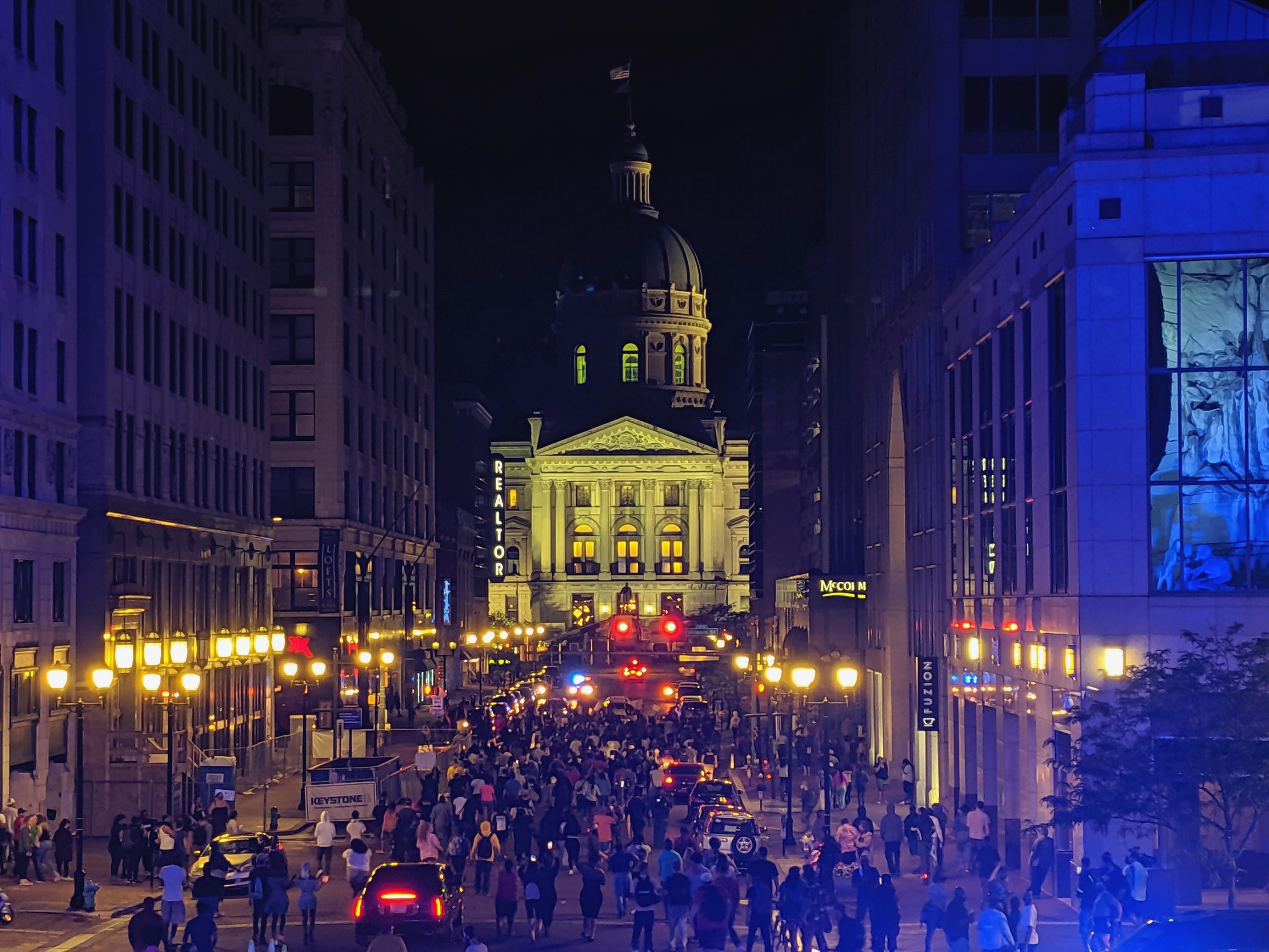 George Floyd protests, downtown Indianapolis, 2020-05-29